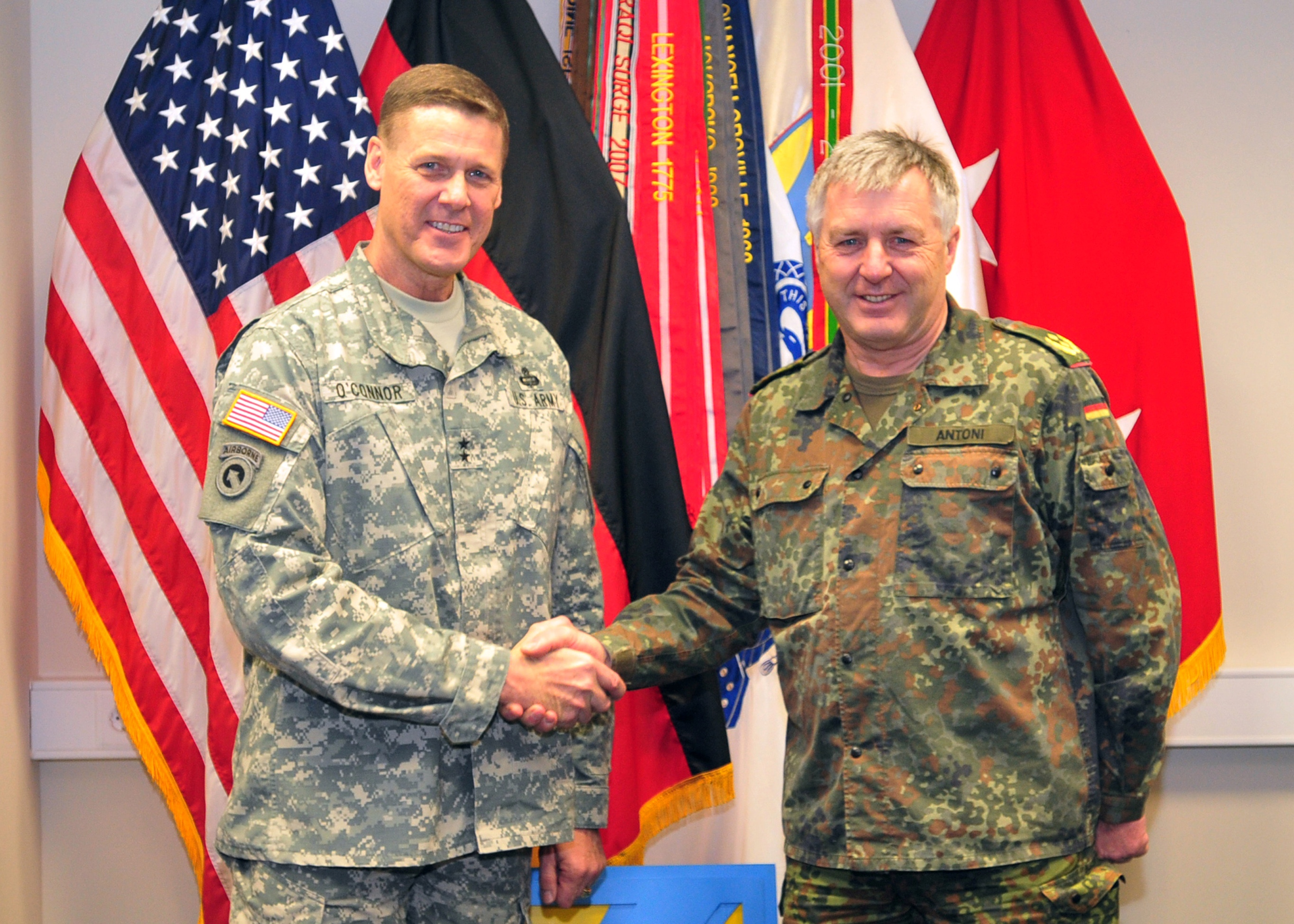 Maj. Gen. John O'Connor, commander of the 21st Theater Sustainment Command, and Maj. Gen. Hans Erich Antoni, commander of the Bundeswehr Logistics Command (Photo by Ronnie Schelby, 21st Theater Sustainment Command)